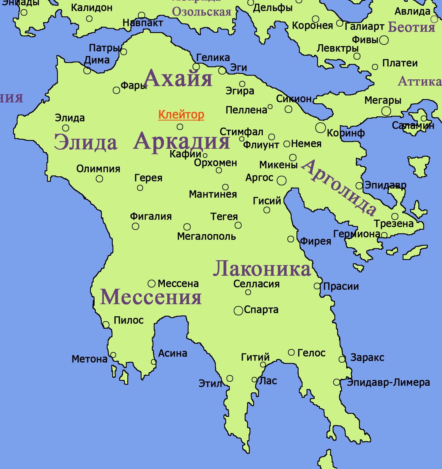 Kleitor (city)